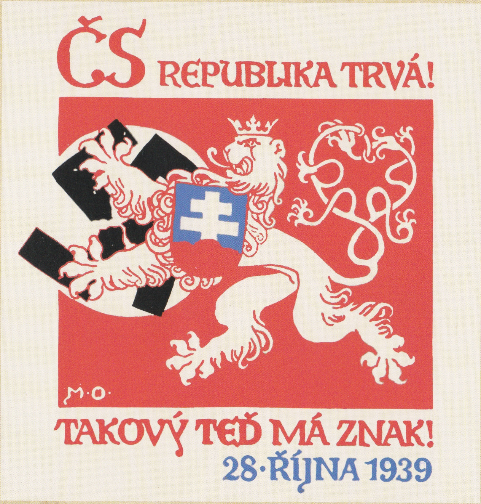 Colored linocut - illegal leaflet dated on October 28, 1939 created by Vojtěch Preissig (* 1873 - † 1944). On the flyer there is the text: „The Czech Republic lasts! Such a heraldic sign has it now! October 28, 1939“